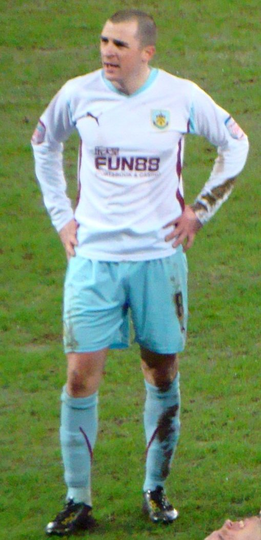 15/02/11 Cardiff V Burnley, Championship, Cardiff City Stadium, Cardiff, Wales